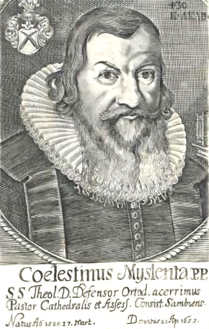 Cölestin Myslenta, (1588-1653 ) Lutheran Theologian from Germany